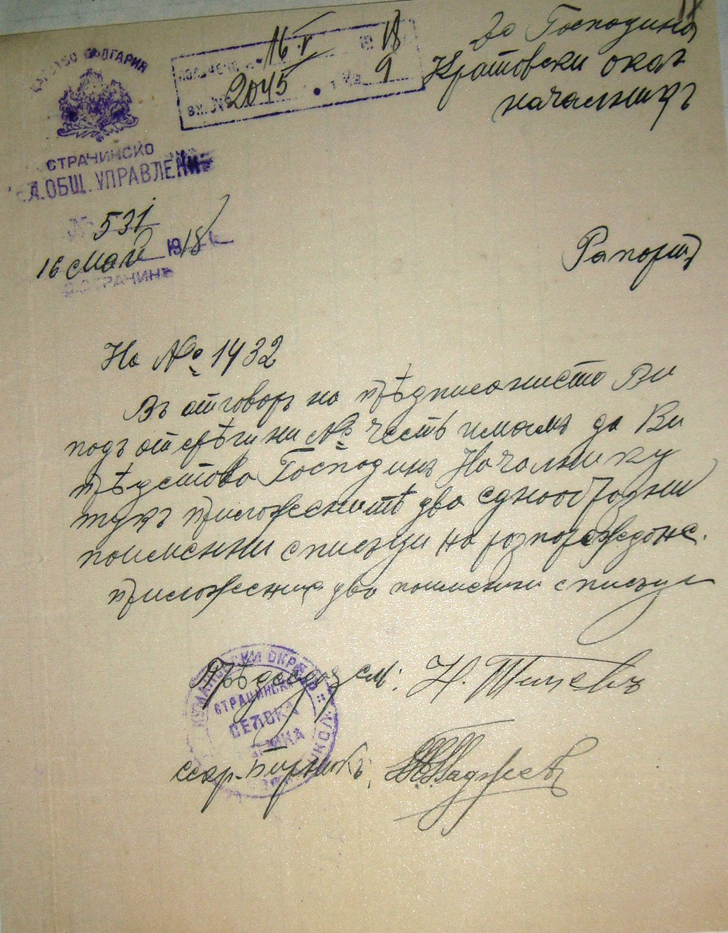 Document stamped by rural municipality of Strachin, May 16, 1918. This media file is produced by Wikipedian in Residence in Category:Wikipedian in Residence at DARM in 2016.